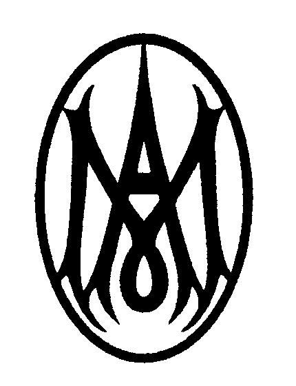 Emblem of Conceptionist Missionaries of the Teaching, religious congregations founded by Carmen Sallés, 1892; from a print 1909